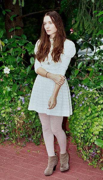 Actress Rooney Mara attending A Conversation With Sharon Stone on October 10, 2009 in East Hampton, New York, USA.